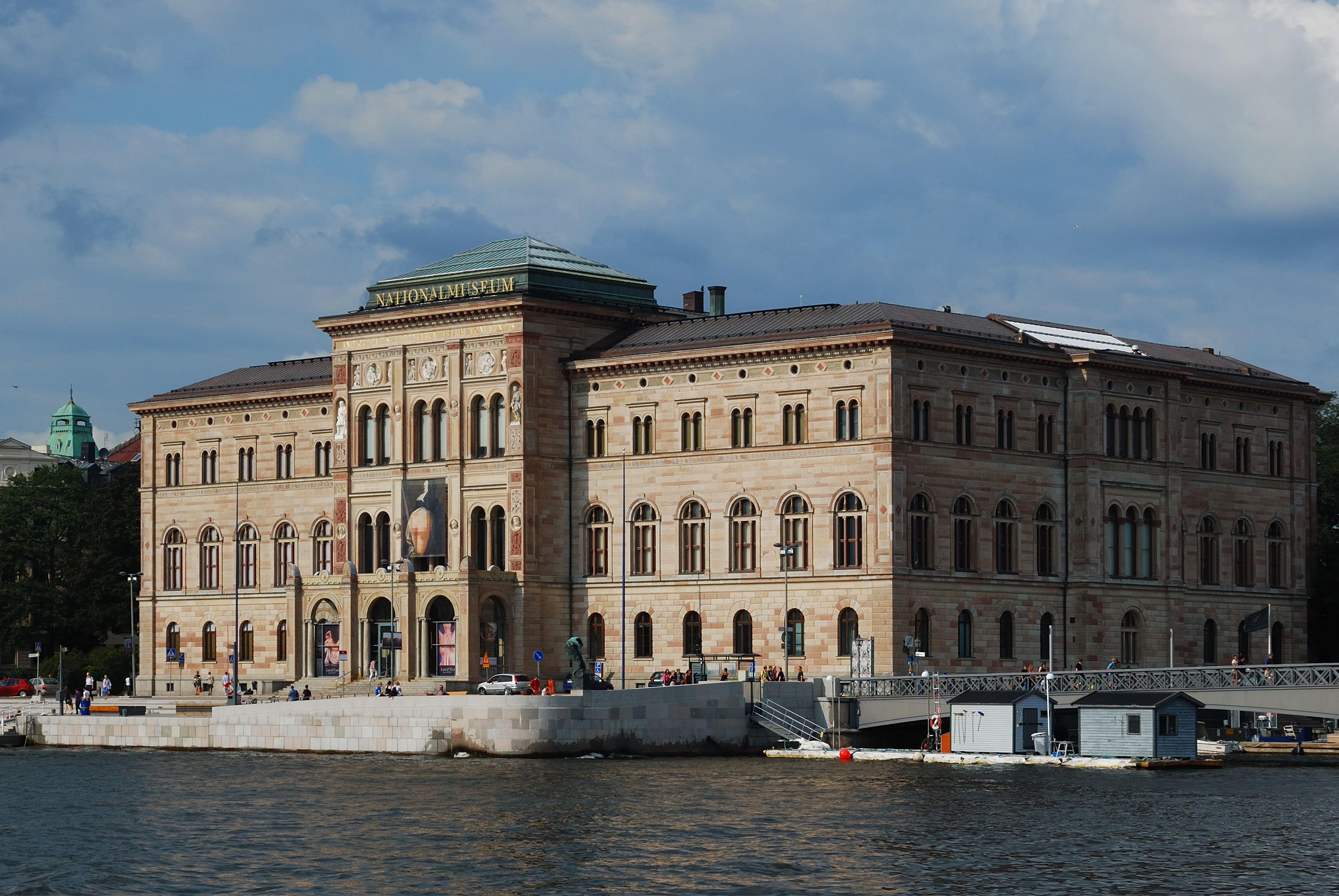 Nationalmuseum, in Stockholm, Sweden.